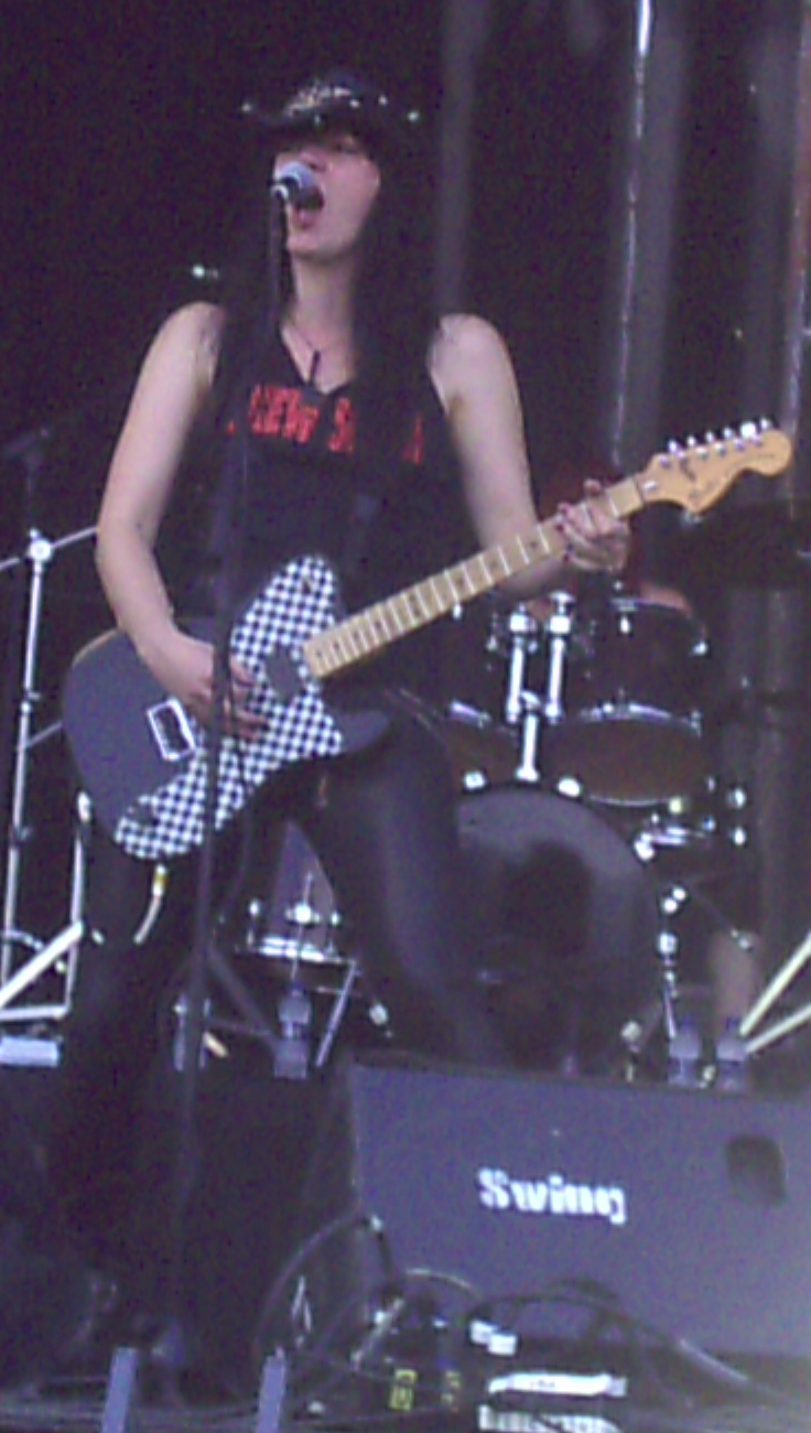 Mia Coldheart performing at Gernika's Metalway Festival 2006 (Spain) with her band Crucified Barbara. Contact O_Menda if you want the original image or any other to improve it.